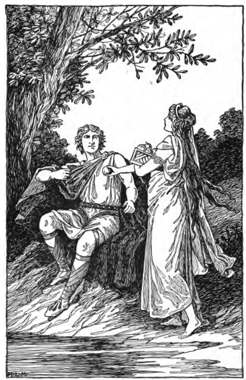 Captioned as "Iduna Giving Loki the Apple". The goddess Iðunn hands Loki one of her apples.